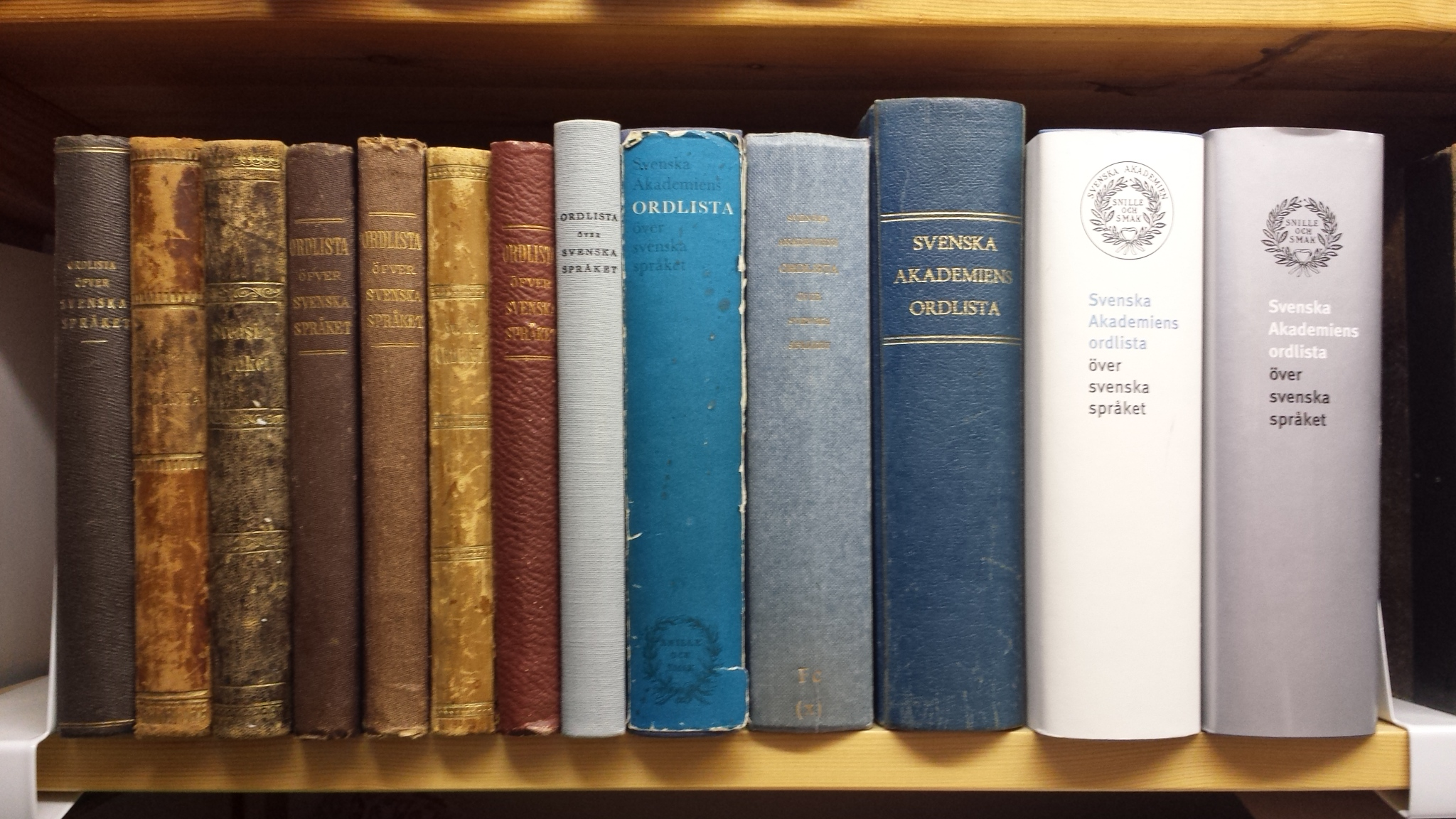 Complete set of edition of the SAOL